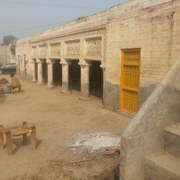 picture of famous historic political place